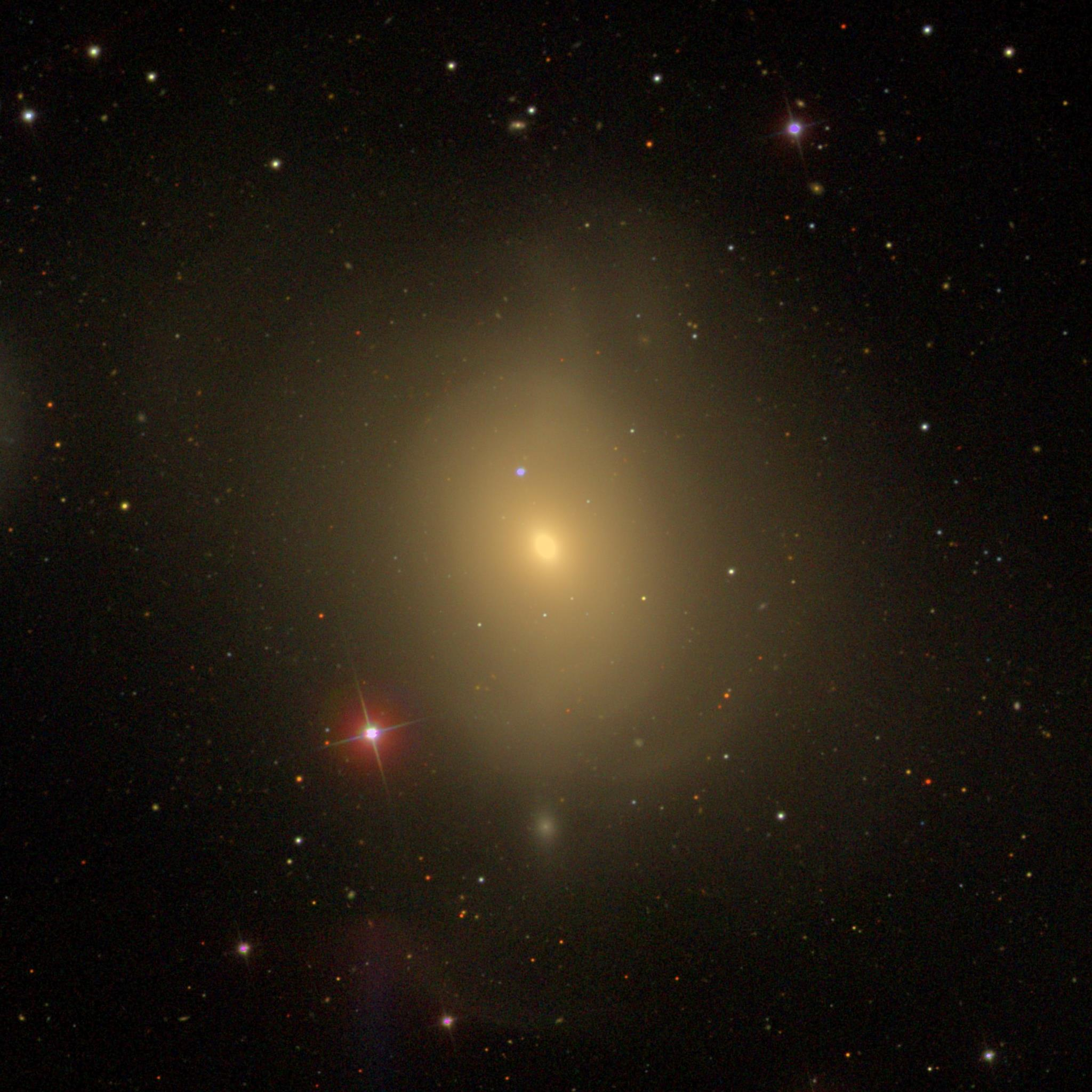 Angle of view: 12' x 12' (0.3515625" per pixel), north is up.